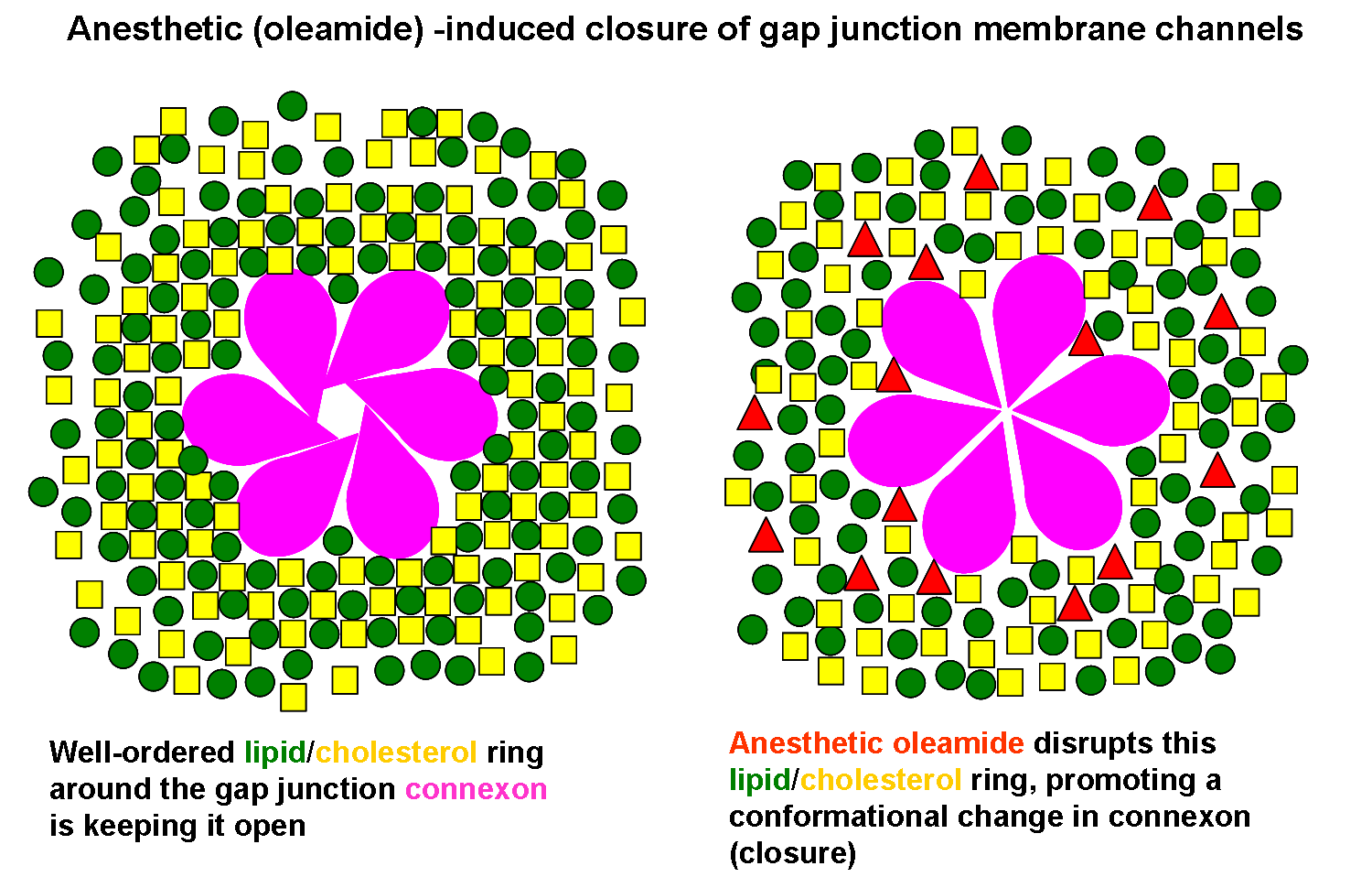 This figure was modified from Richard A. Lerner PNAS Vol. 94, pp. 13375–13377, 1997